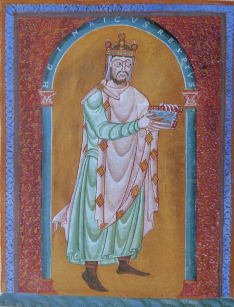 Henry II, Holy Roman Emperor